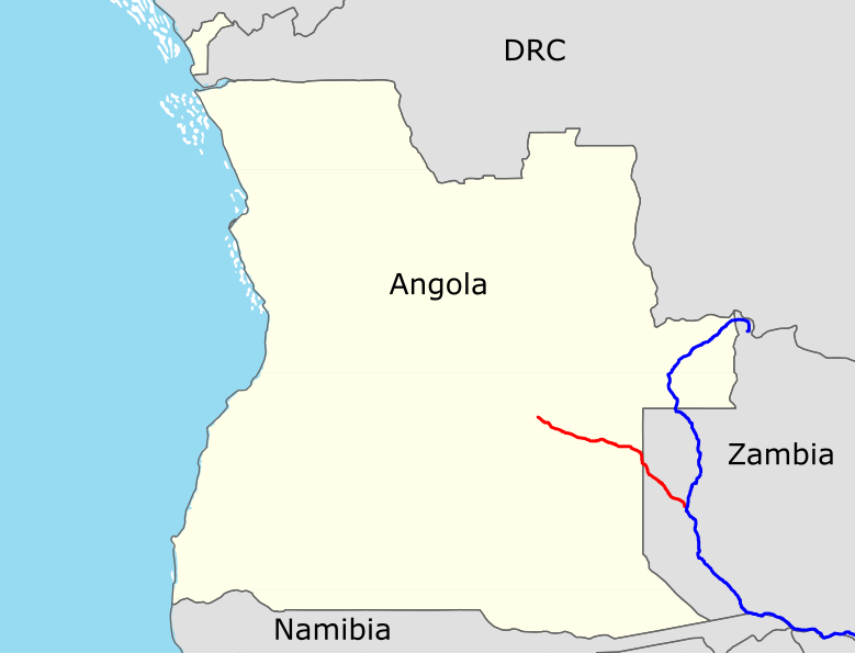 The Luanginga River (red) and part of the Zambezi River (blue); (simplified